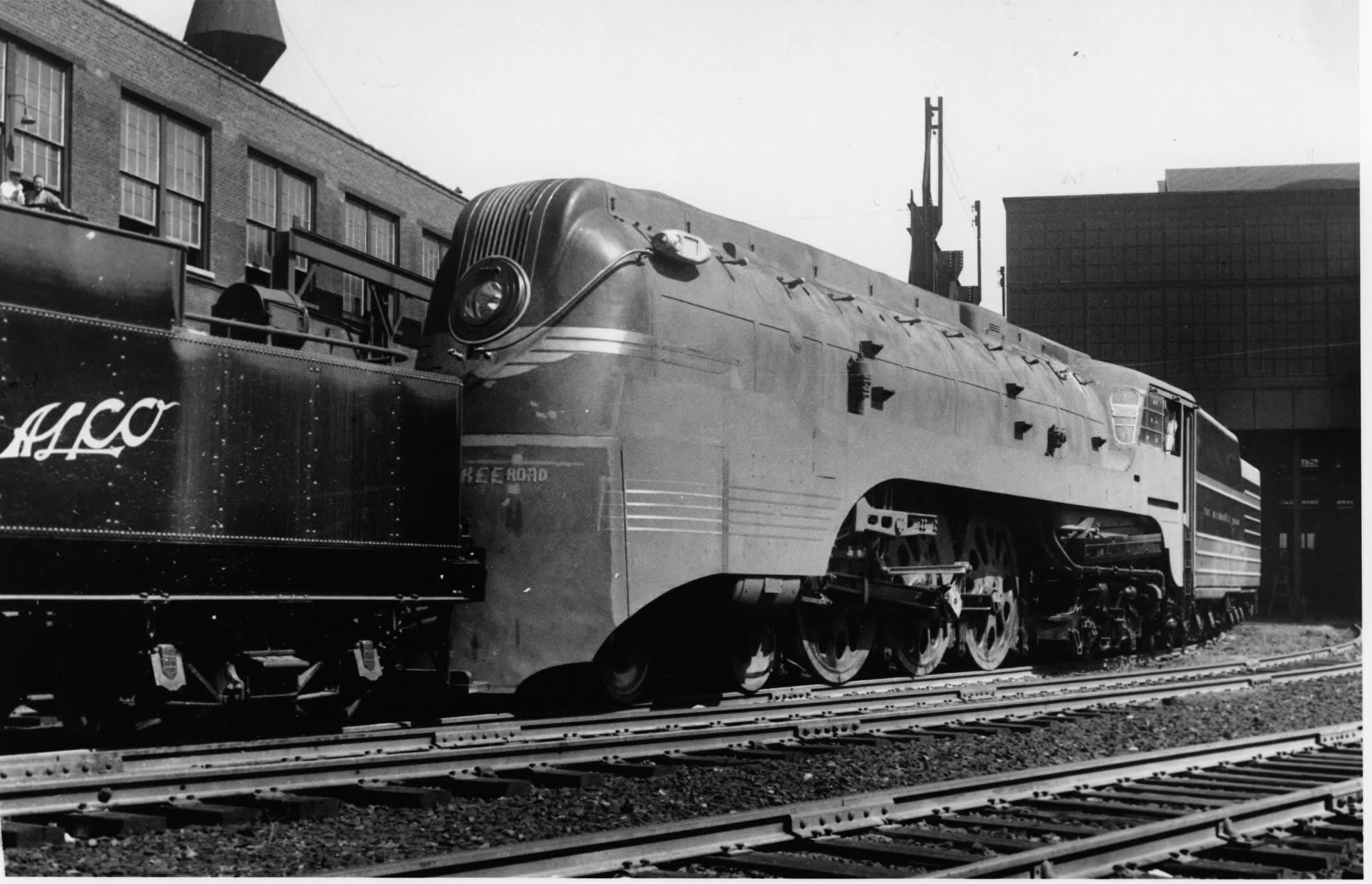 Milwaukee Road class F7 2nd generation Hiawatha locomotive streamstyled by Otto Kuhler